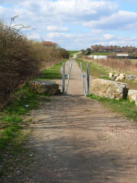 Haswell to Hart Railway Path, near Shotton Colliery Part of the National Cycle Network. A-frame access control in a vain attempt to keep motorcyclists off the path